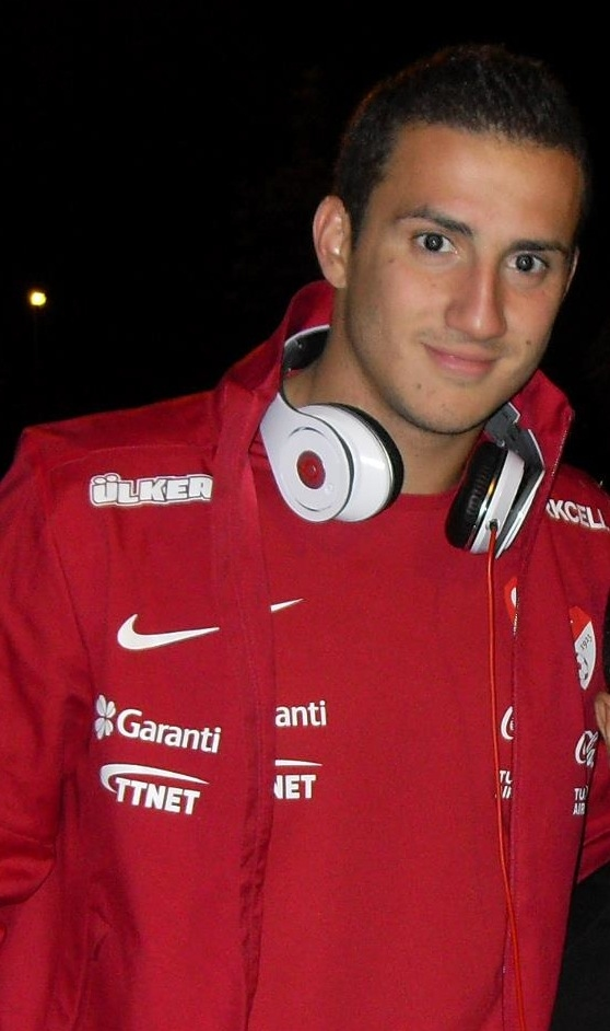 Sercan.